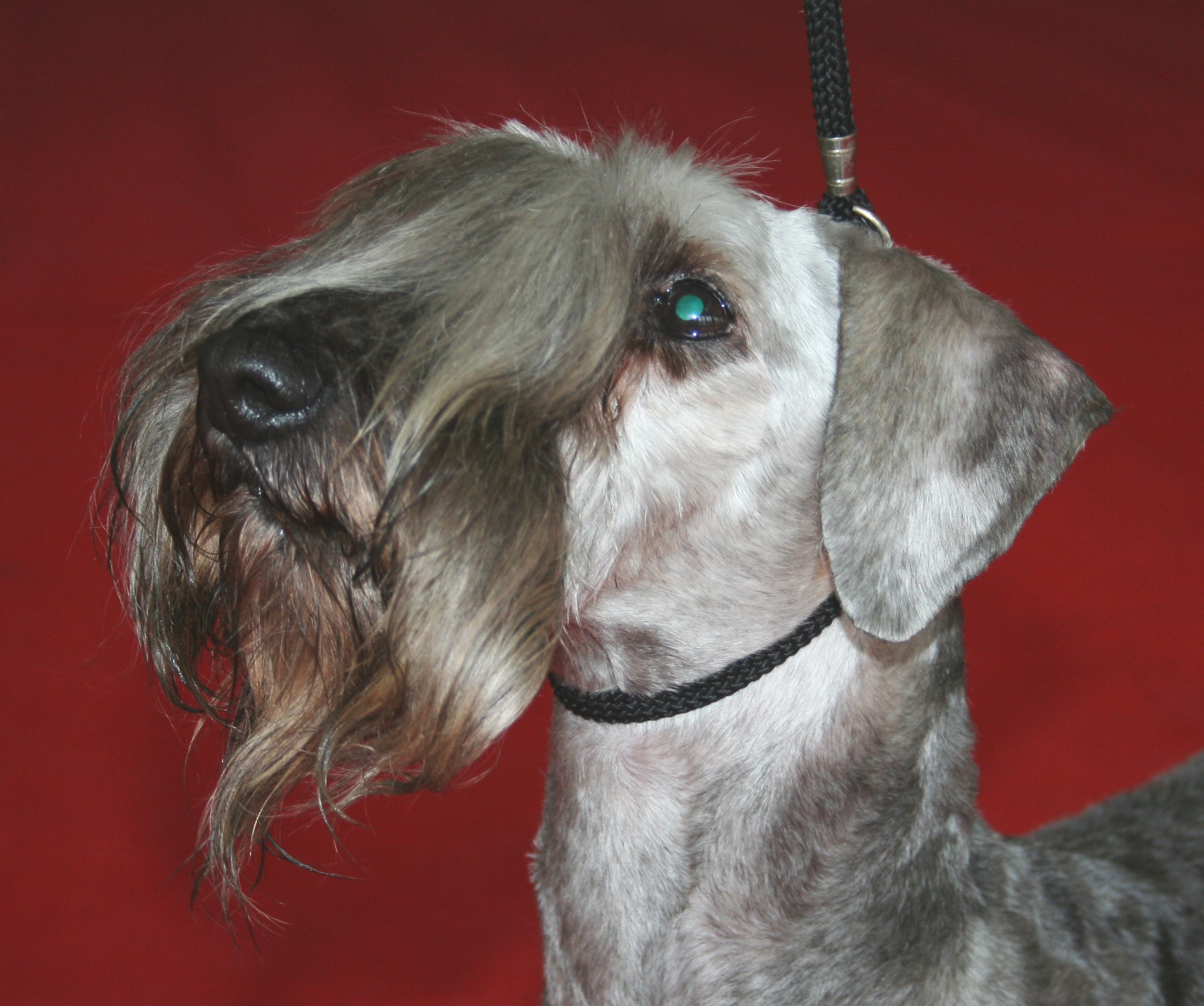 Cesky-Terier - bitche during the international dogs show in Katowice, Poland. It's a female, her name is Amelka Uśmiechnięta Wielocętka. The breeder and owner is Aleksandra Lewalska - Piguła from Poland.